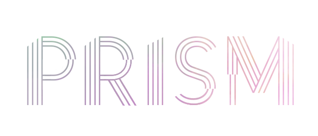 Official logo of Katy Perry's fourth studio album, "Prism".